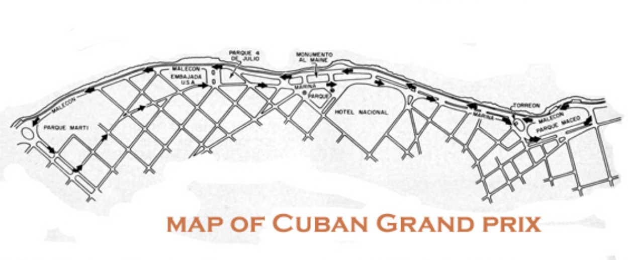 Cuban Grand Prix Circuit. Havana. 1957